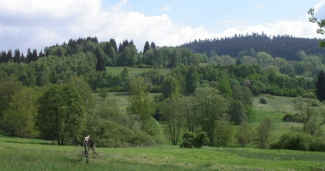 Bohemian forest in the spring